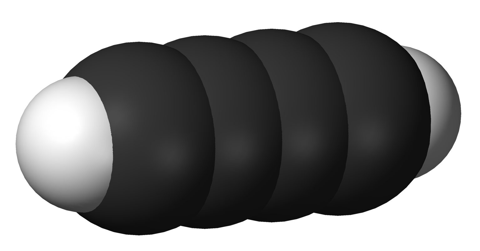 Space-filling model of the diacetylene molecule.